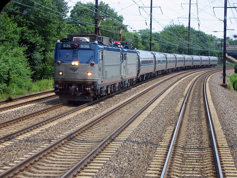 An Amtrak Regional train on the Northeast Corridor in New Jersey led by two AEM-7 locomotives, photographed from a NJ Transit train.